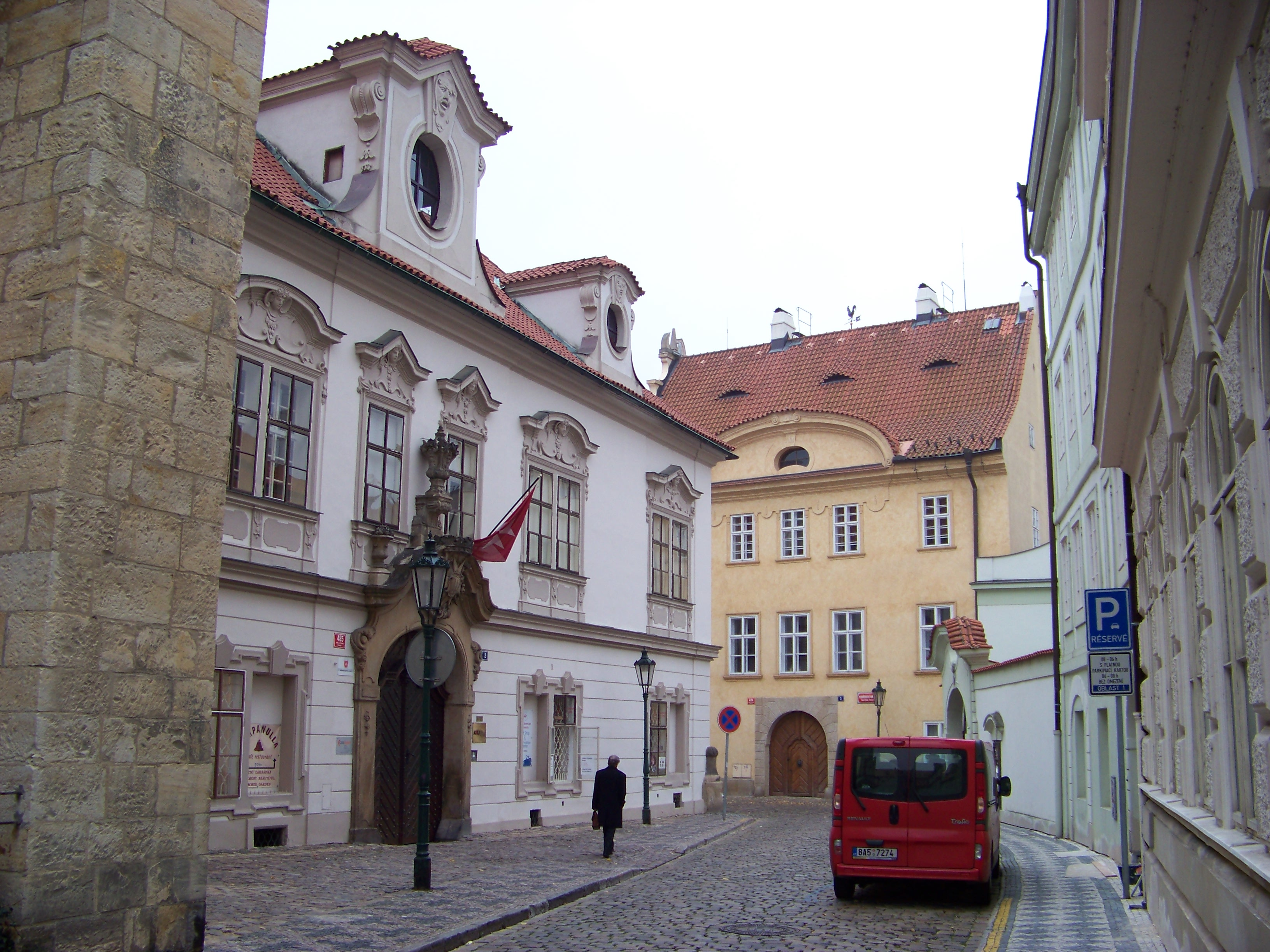 Prague-Malá Strana, the Czech Republic. Lázeňská street, the south part.